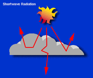 This image depicts the effects of clouds scattering shortwave radiation from the sun. This tends to result in overall cooling of the Earth.